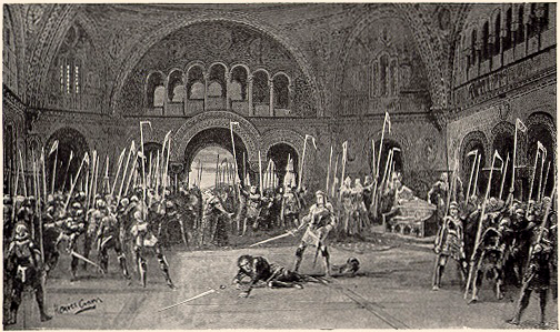 Hawes Craven's Souvenir of King Arthur, presented at the Lyceum Theatre.